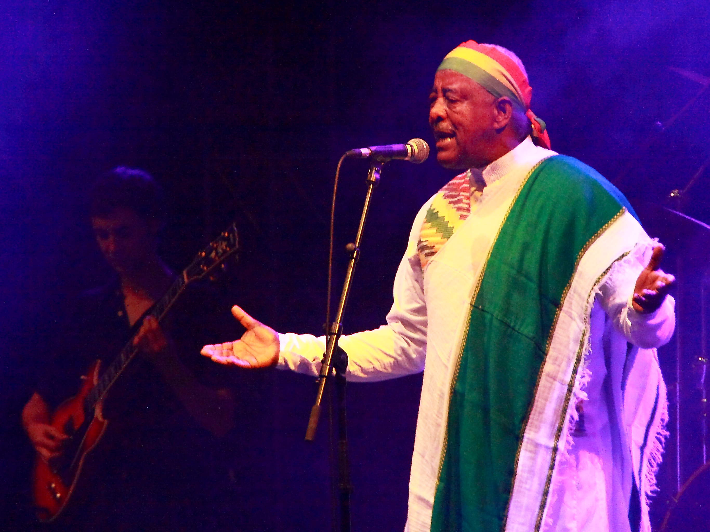 Mahmoud Ahmed performing with Badume´s Band at TFF.Rudolstadt 2010